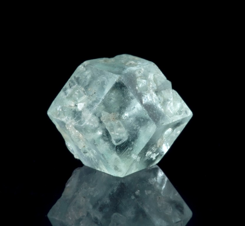 Boracite Locality: Lüneburg Kalkberg, Lower Saxony, Germany Size: 1.2 x 1.1 x 0.9 cm This is a remarkable and equant dodecahedron of boracite, complete-all-around, from the type locality. Good sea-foam blue/green color, good luster, and fine form. These are quite old and turn up now only in old collections. Joe Budd photos.